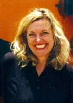 Portrait Karin Böhme-Dürr